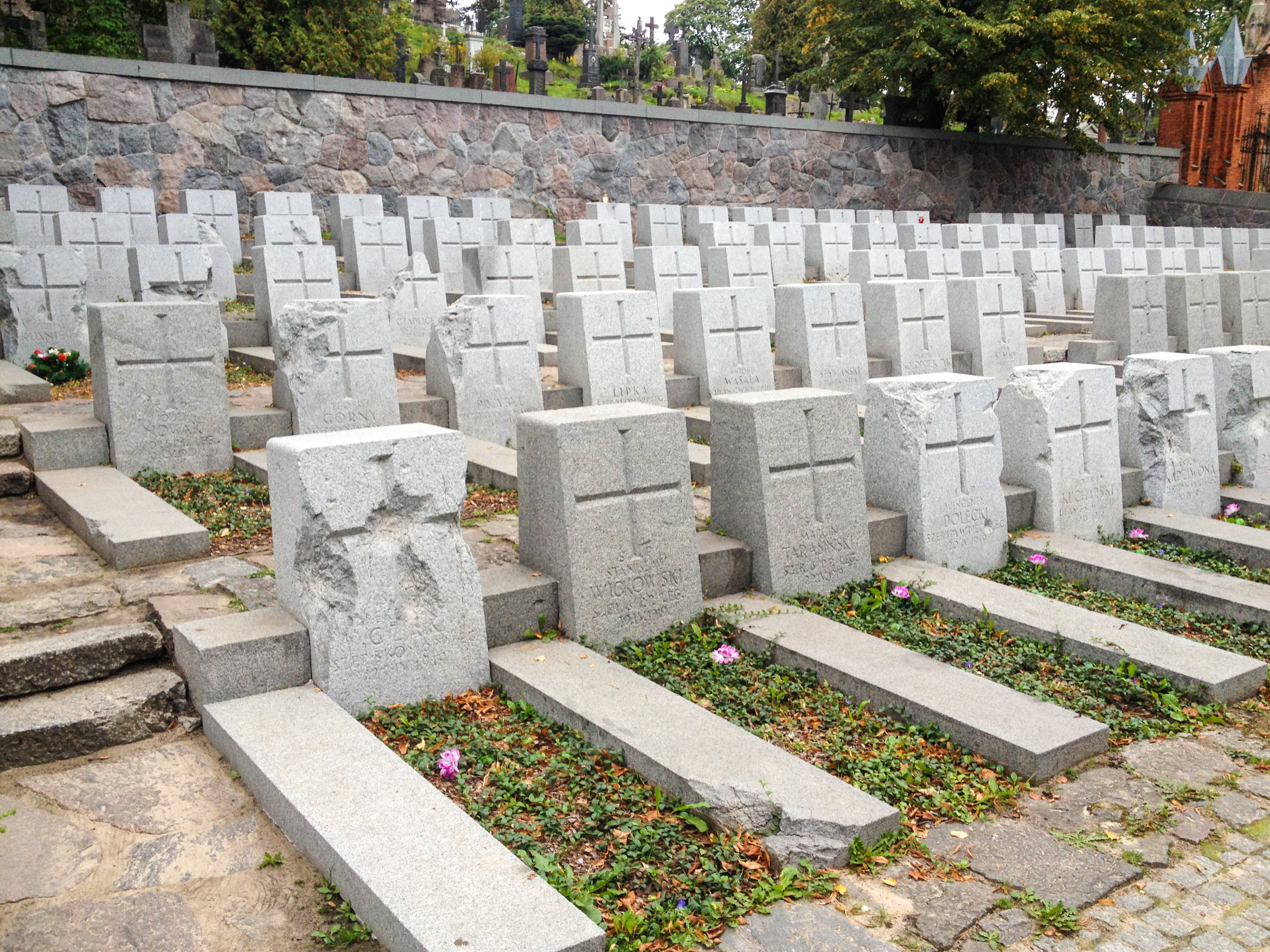 Photo of Rasos Cemetery in Vilnius.